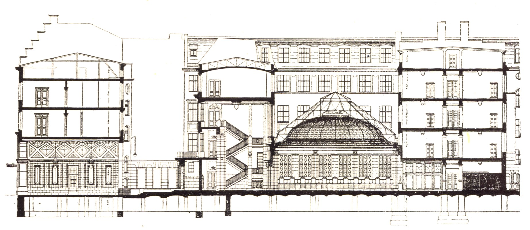 Berlin - market hall IV, section for the modification of the market hall to the postal check office